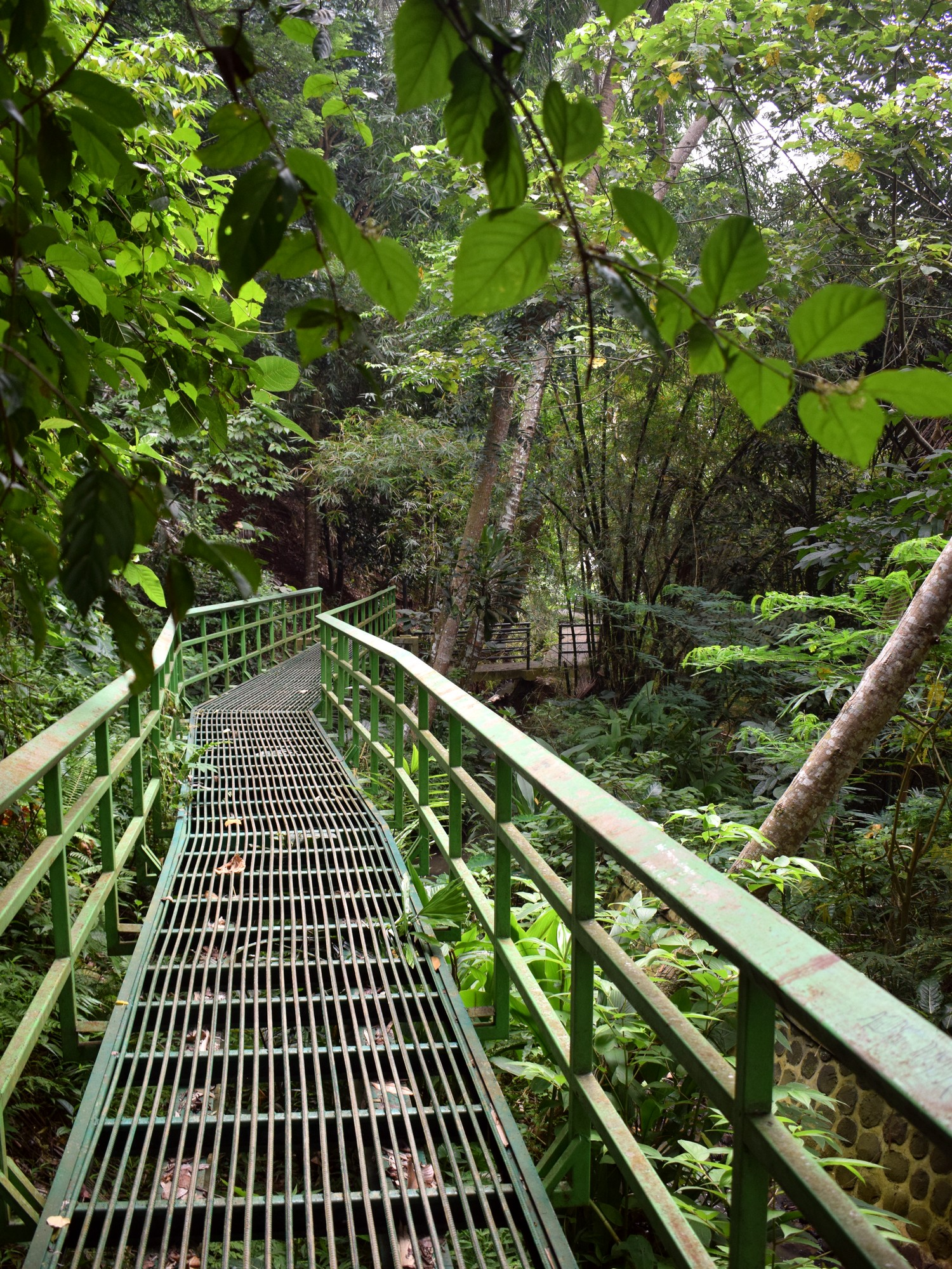 Bungkirit urban forest in Kuningan, West Java, Indonesia.